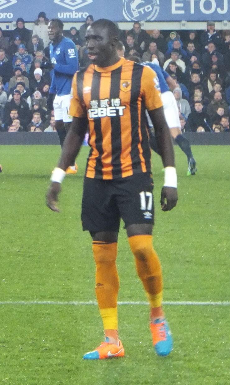 Mohamed Diame playing for Hull City